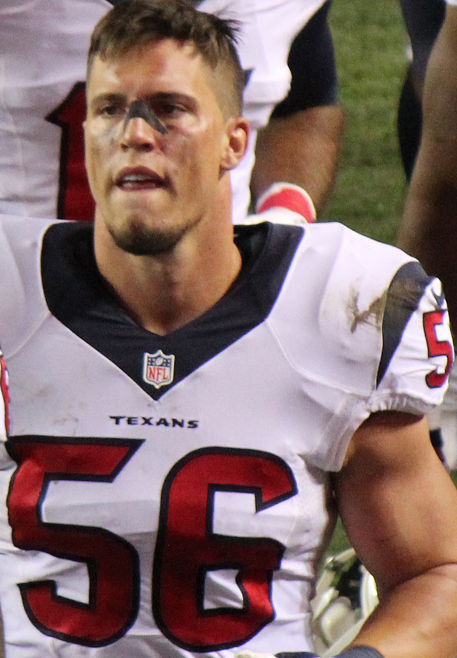 Brian Cushing, a player in the National Football League